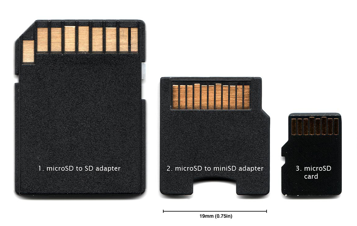 A 512 MB Kingston microSD card next to a Patriot SD adapter (left) and miniSD adapter (middle).